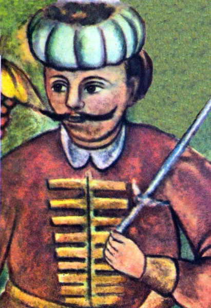 Vlad Dracul, prince of Wallachia, reigned two times.